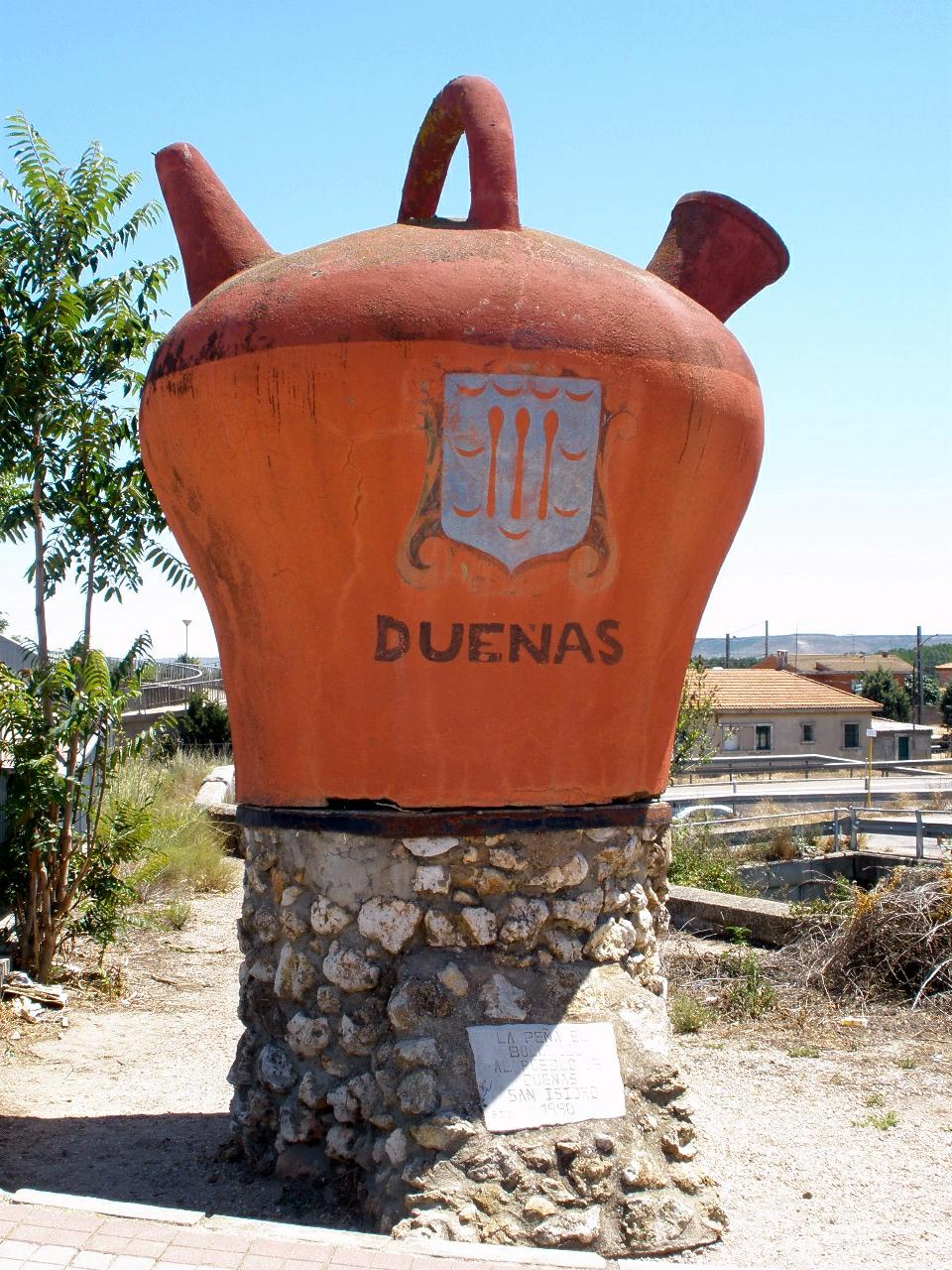 Botijo gigante en las afueras de Dueñas, junto al Canal de Castilla, la autovía y la vía férrea (provincia de Palencia, Castilla y León, España)